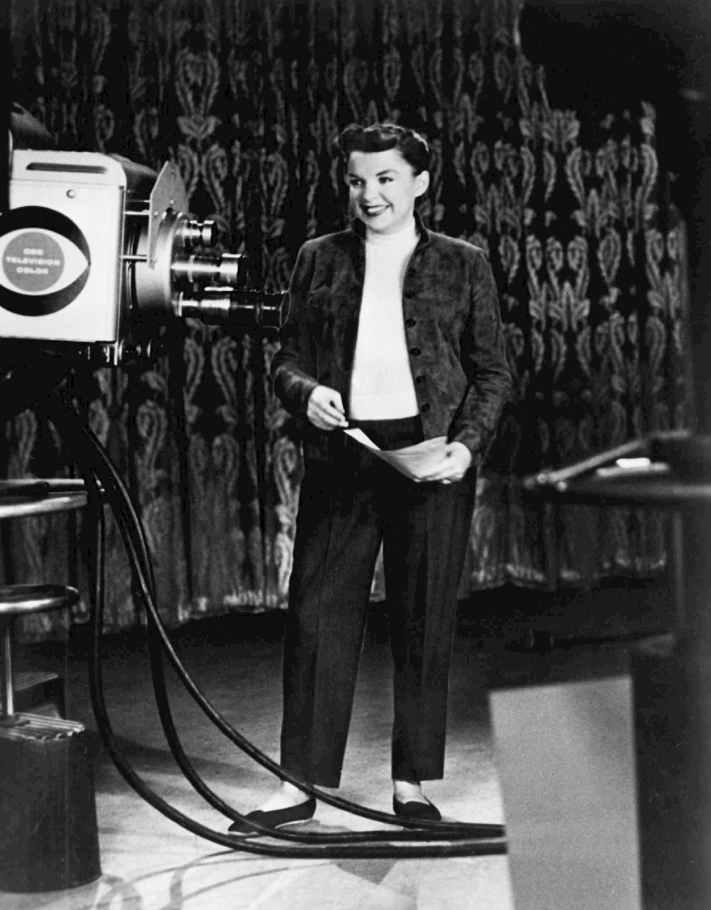 Photo of Judy Garland rehearsing for her first television appearance. The program was Ford Star Jubilee and this was to be the first telecast for the show. It was also the first color telecast for the CBS network.